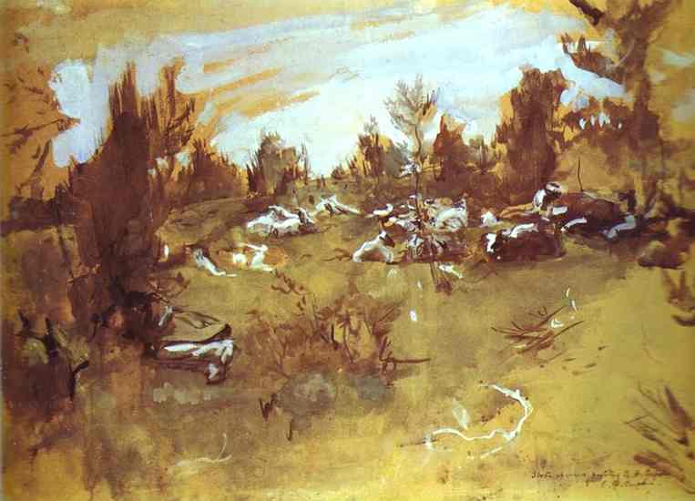 Herd. 1890s. Charcoal, gouache, and chalk on paper. Private collection.